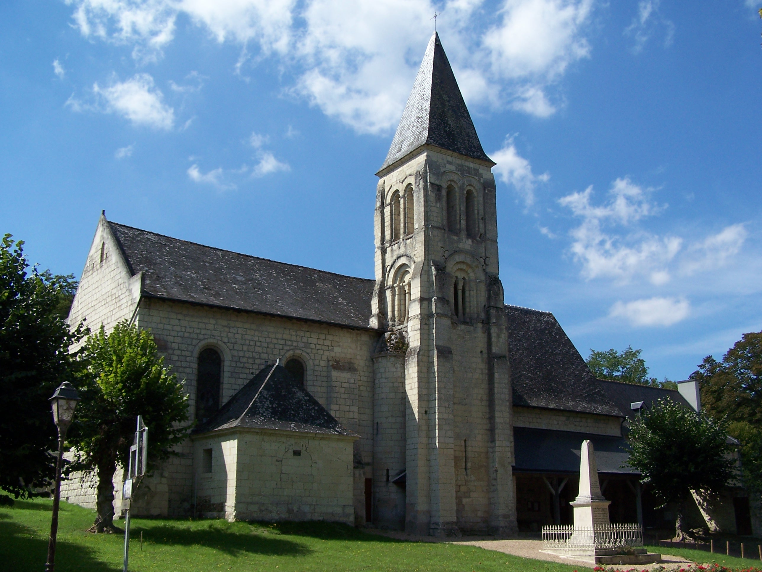 Église de Saint-Germain-sur-Vienne